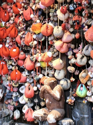 Photograph of the Kukurizaru talismans and statue at the Yasaka Koshindo Temple in Kyoto